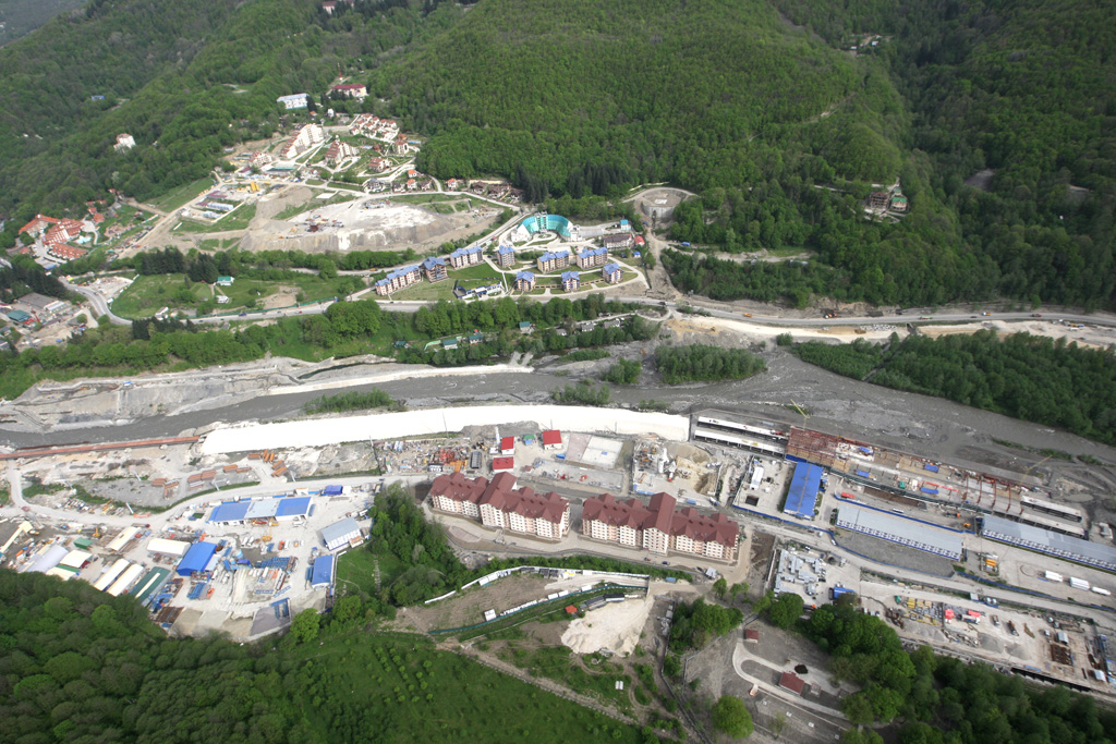 “Krasnaya Polyana in Sochi”. Aerial view of Krasnaya Polyana.